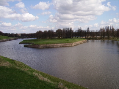 bastion at Naarden